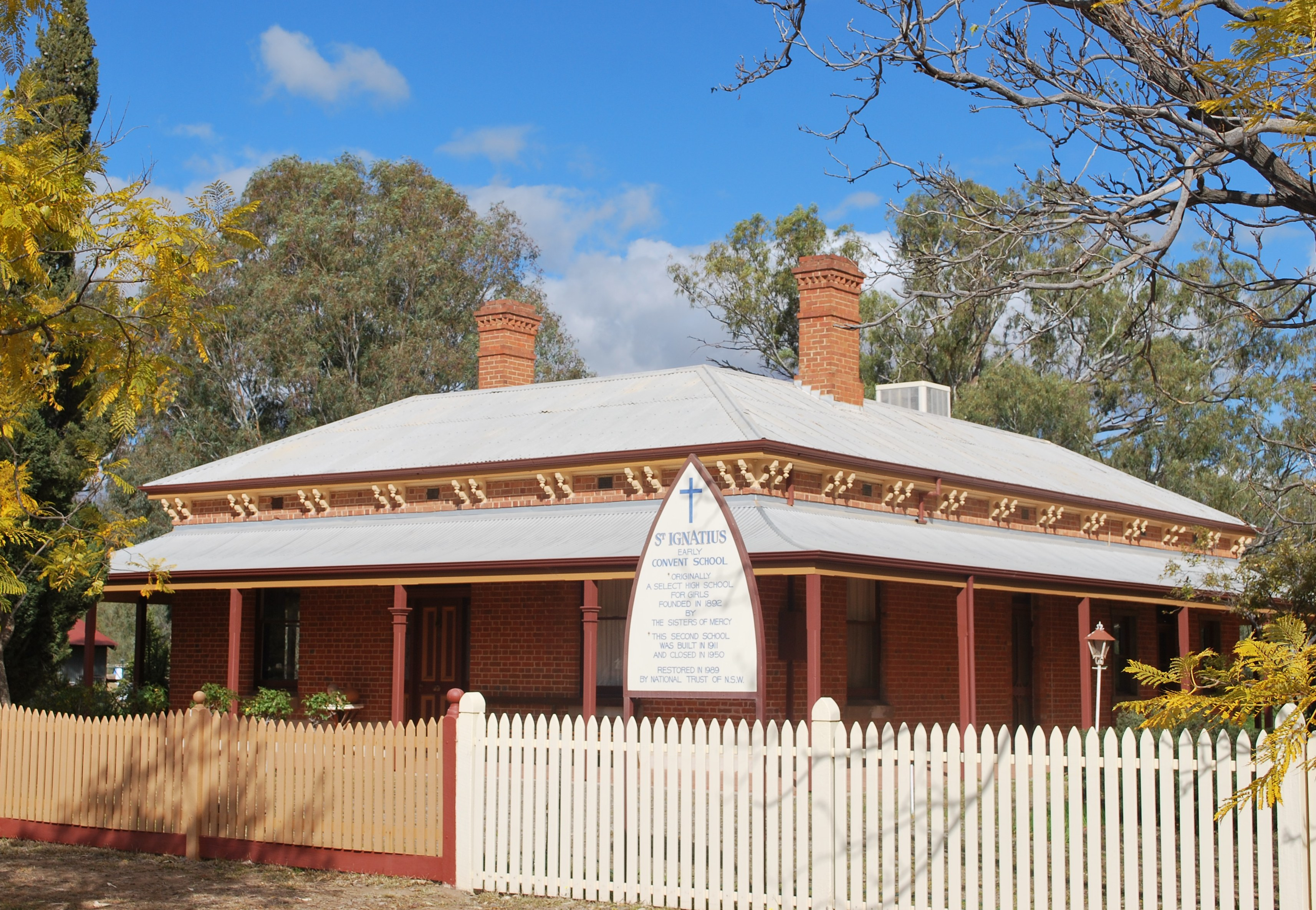 The former St Ignatius Convent School at Wentworth, New South Wales